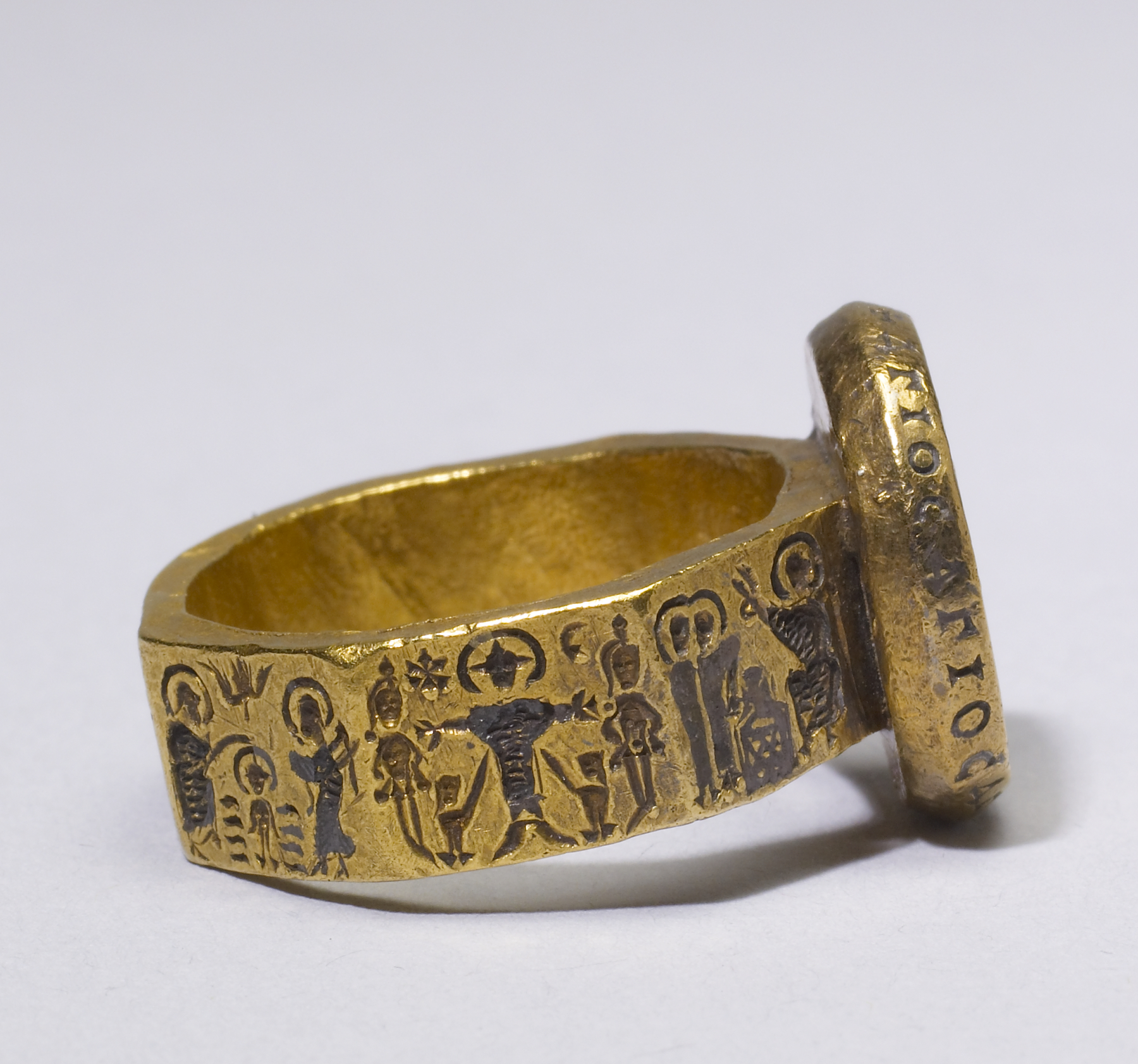 This rare, octagonal ring is decorated with eight scenes from the life of Christ, with the Ascension seen on the flat surface of the bezel (top). Protective powers were attributed to scenes of the life of Christ, which combine to form a prayer in pictures.